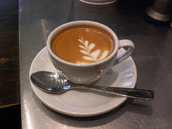 Espresso Macchiato as being served in Oslo, Norway